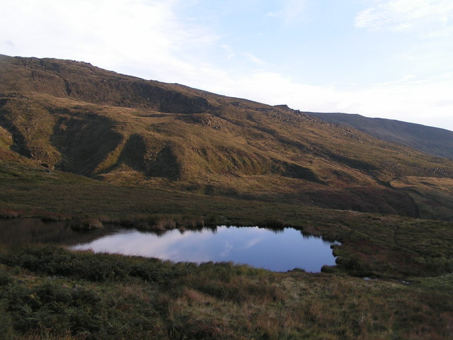 Mermaid's Pool. Legend has it that this pool is linked to the sea and inhabited by a mermaid. In reality it's a shallow (but attractive and atypically large) moorland tarn with excellent views of the Kinder plateau and the Kinder valley. This view was taken southwards from the site of a geocache .